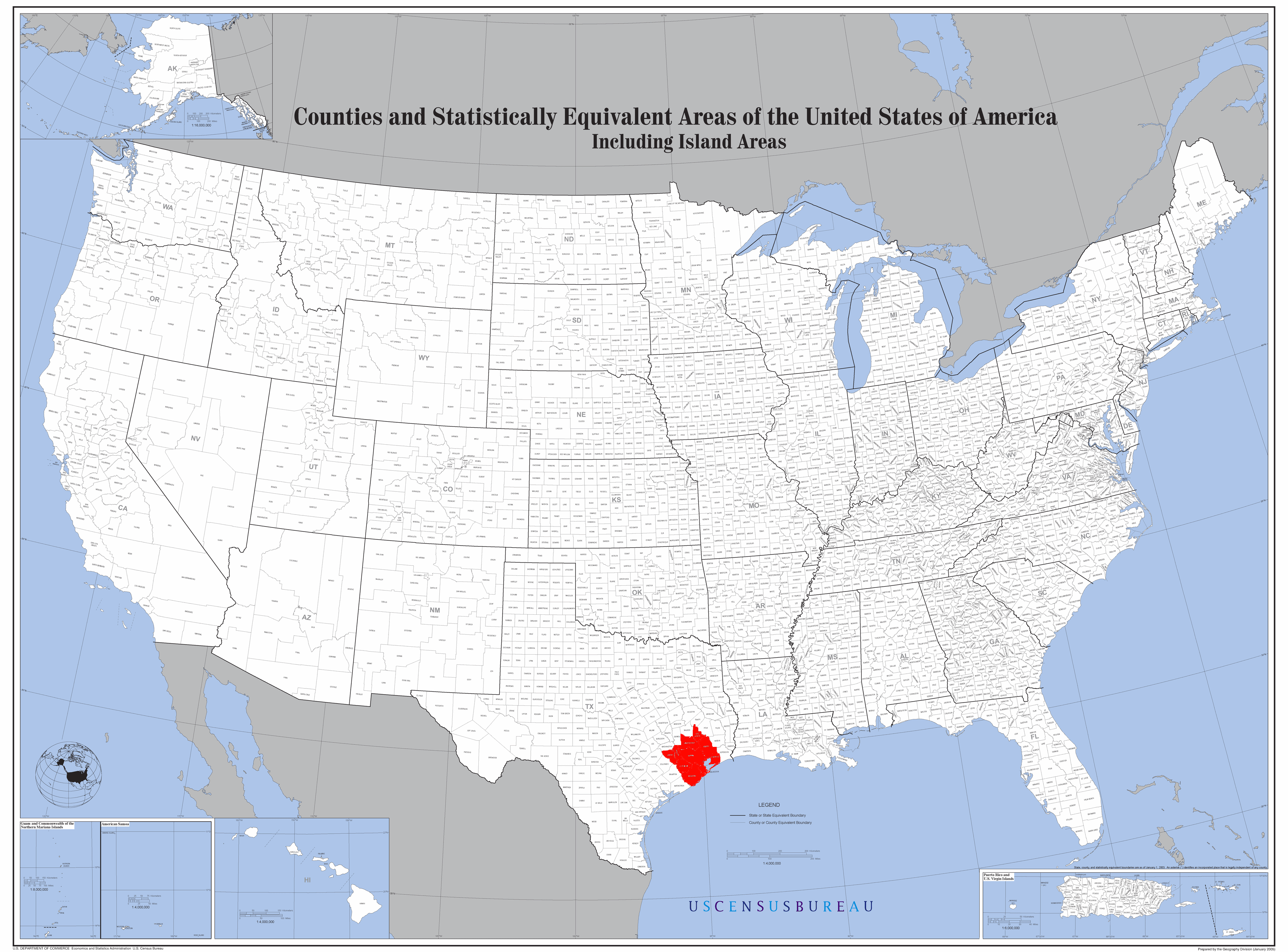 Edited Image:U.S. Counties.gif in w: .